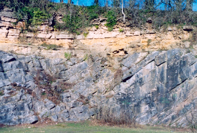 Geological unconformity in Vallis Vale near Frome in Somerset, England, UK. Horizontal Jurassic Oolite overlying dipping Carboniferous Limestone.